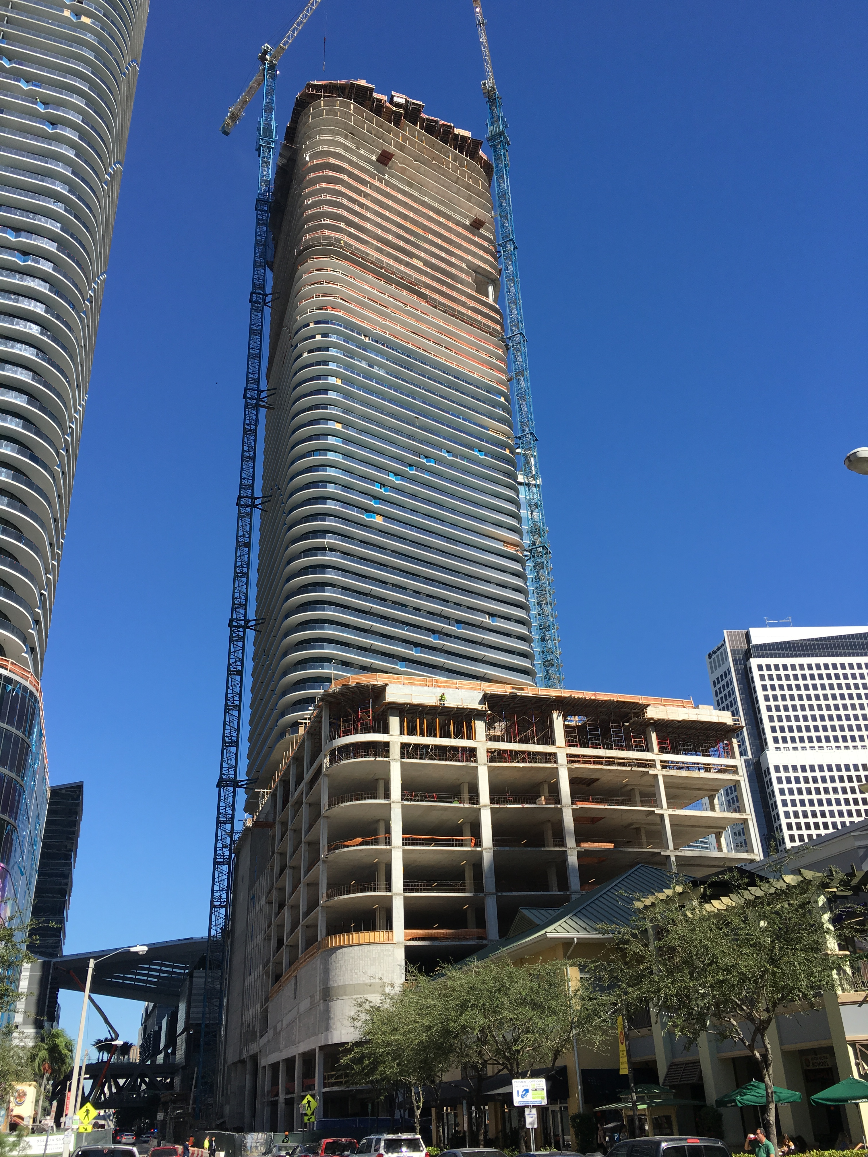 SLS Lux in Miami, FL USA